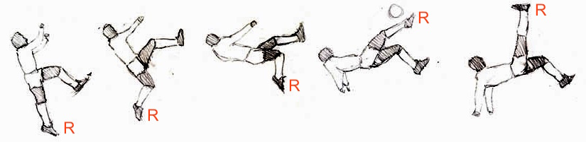 Drawing of the several phases of a bicycle kick ("rovesciata" in Italian).